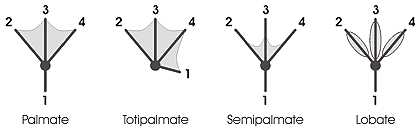 Bird feet - webbing and lobation (right foot): palmate, totipalmate, semipalmate and lobate.